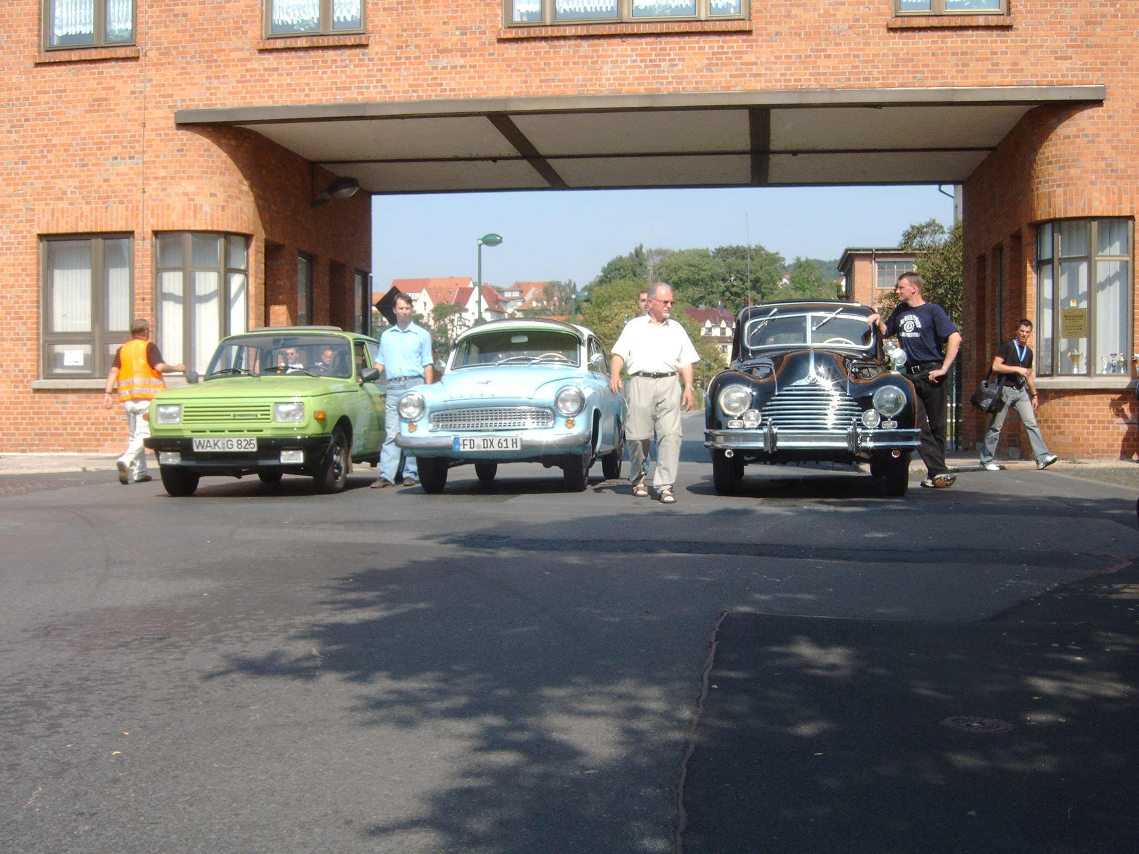 Wartburg 353, Wartburg 311 and EMW 340